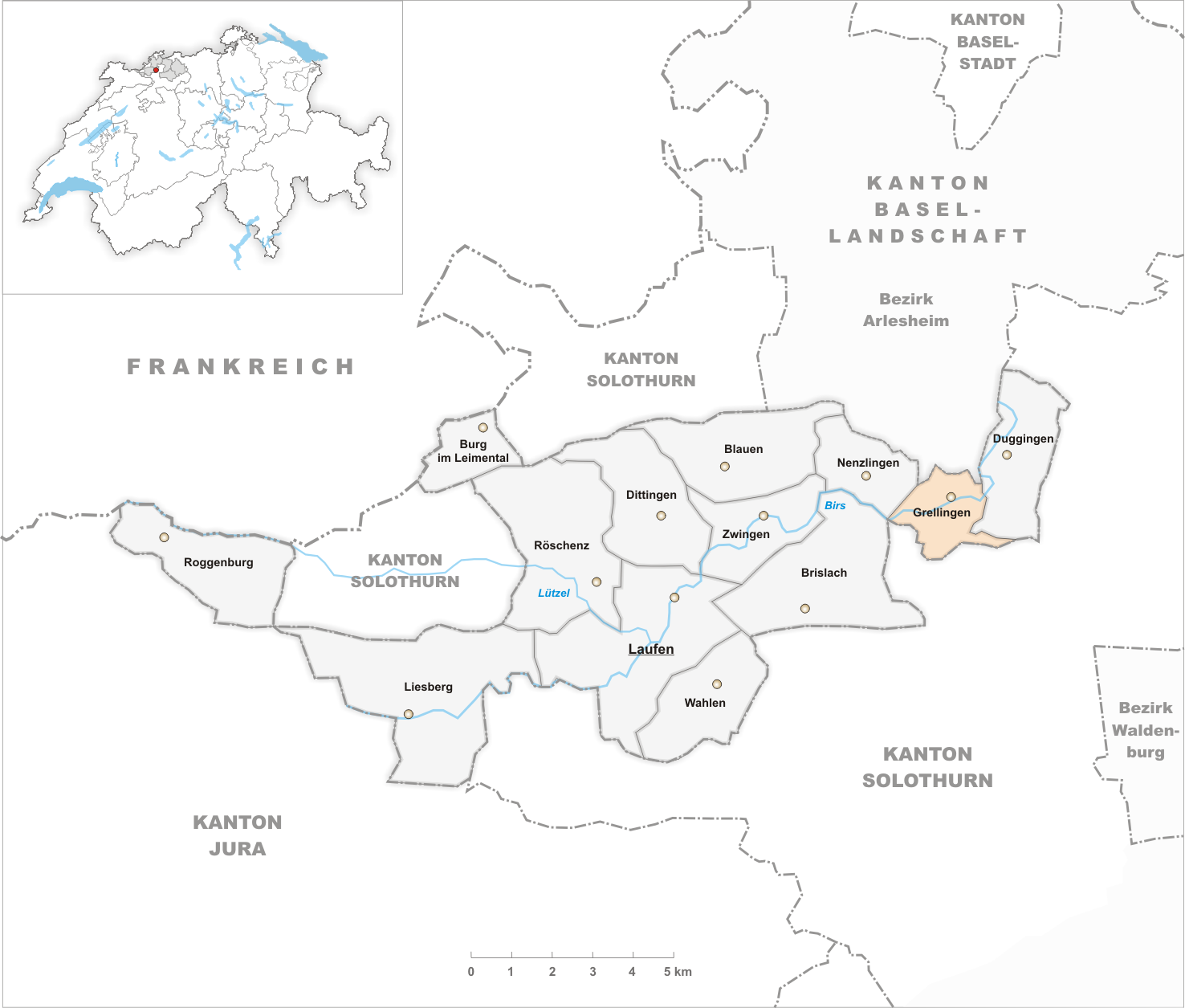 Municipality Grellingen